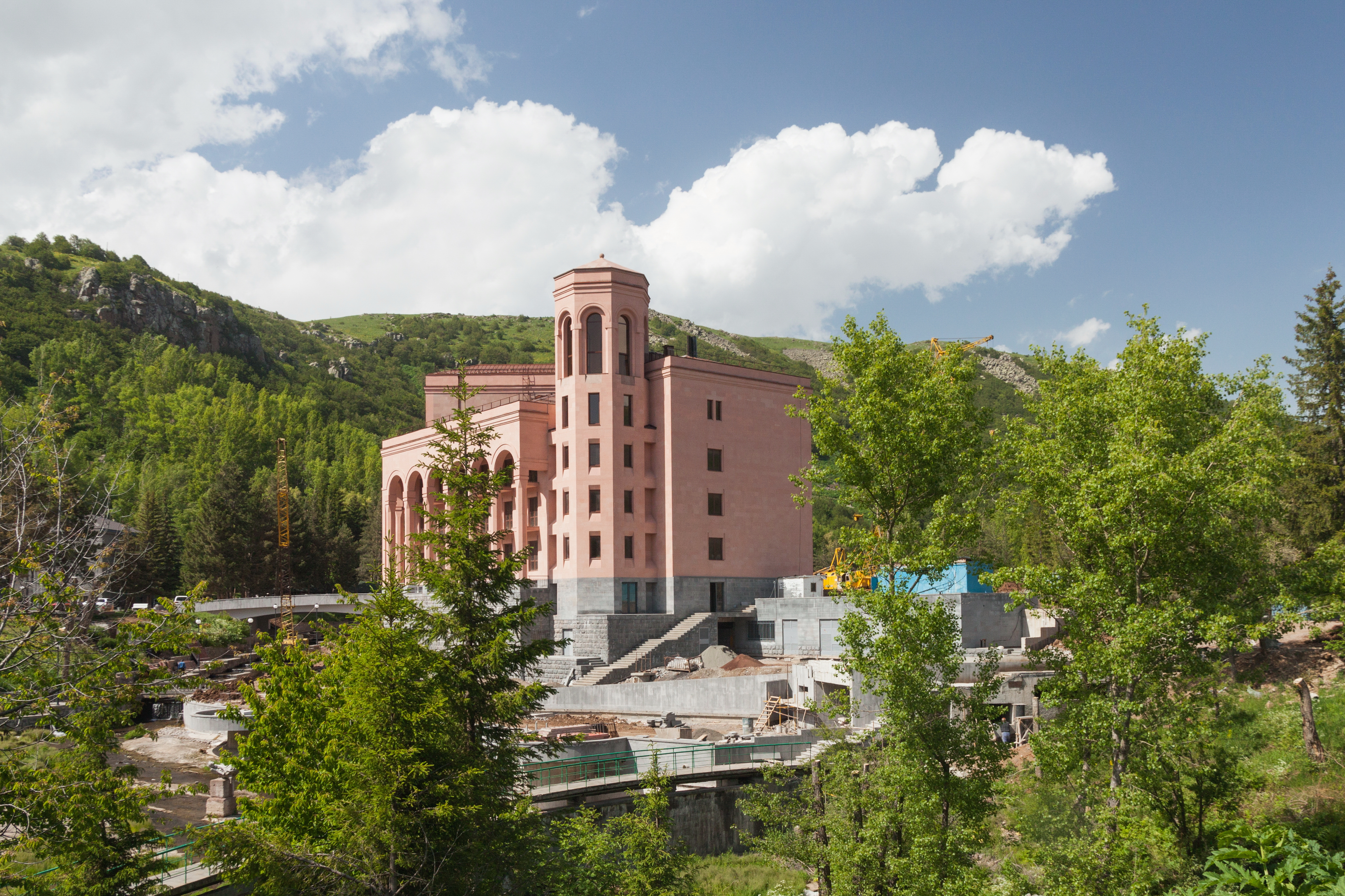 Hyatt Place Hotel during constrution. Jermuk, Vayots Dzor Province, Armenia.